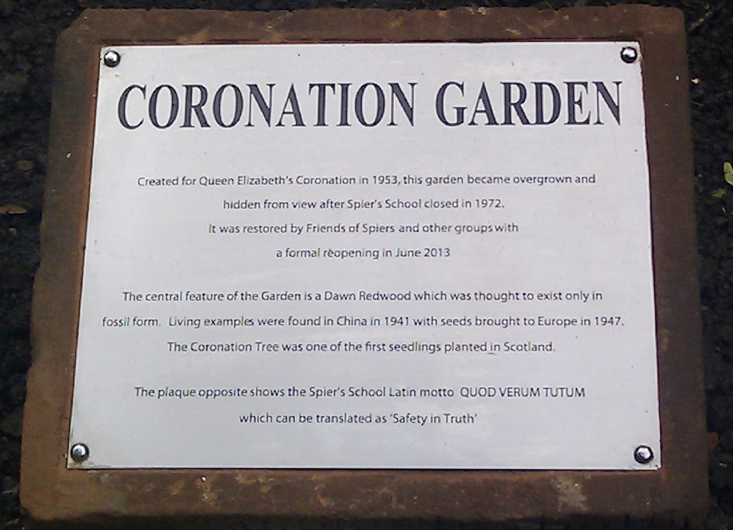 Plaque commemorating the restoration of the Coronation Garden at Spier's parkland, Beith, North Ayrshire, Scotland.